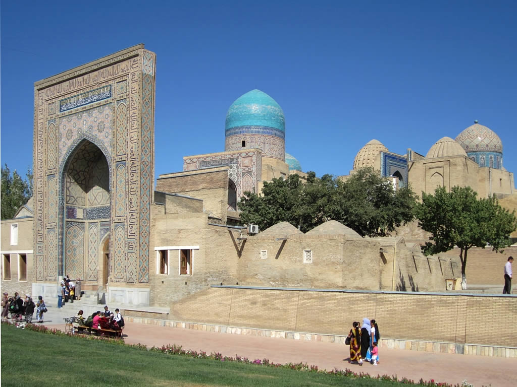 The Avenue of Mausoleums at Shah-i-Zinda in Samarkand, Uzbekistan. Among the notables interred here is Qusam ibn-Abbas, a cousin of the Prophet Mohammed.